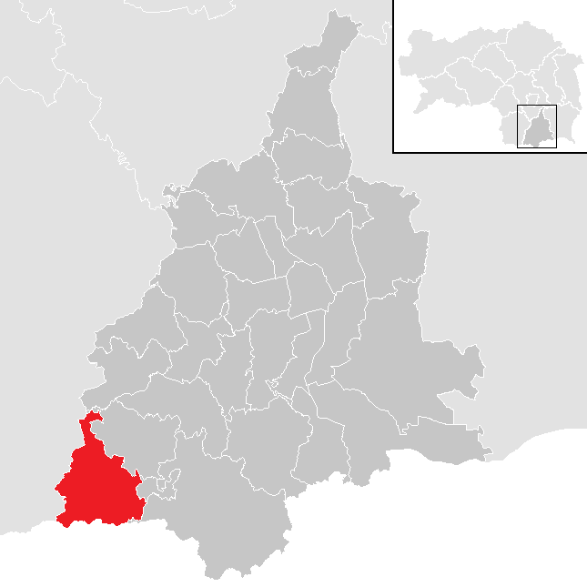 District Leibnitz